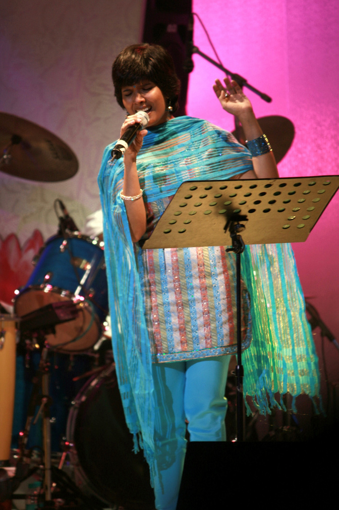 Photograph of Anuradha Sriram.